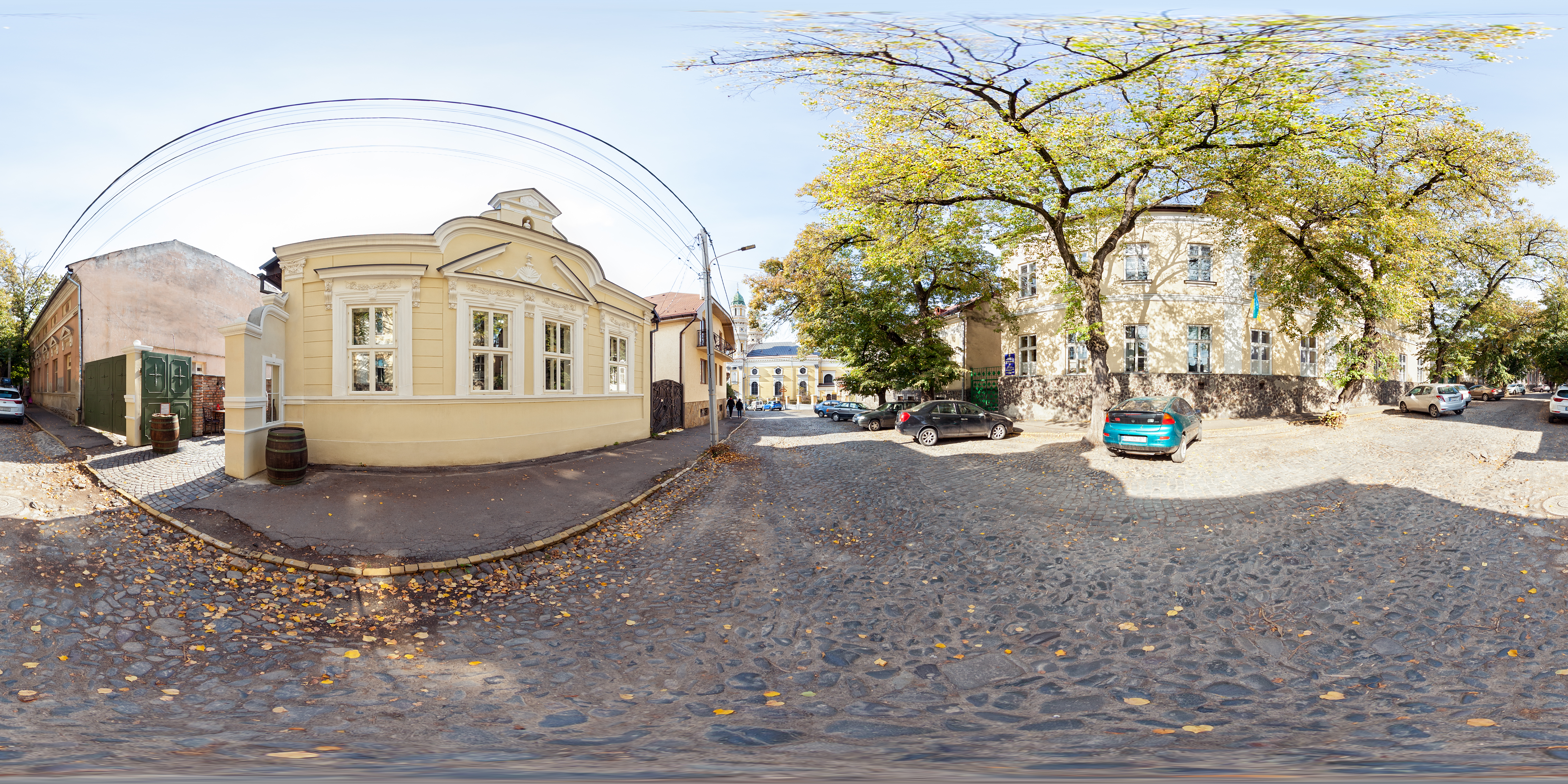 Priest House Uzhhorod